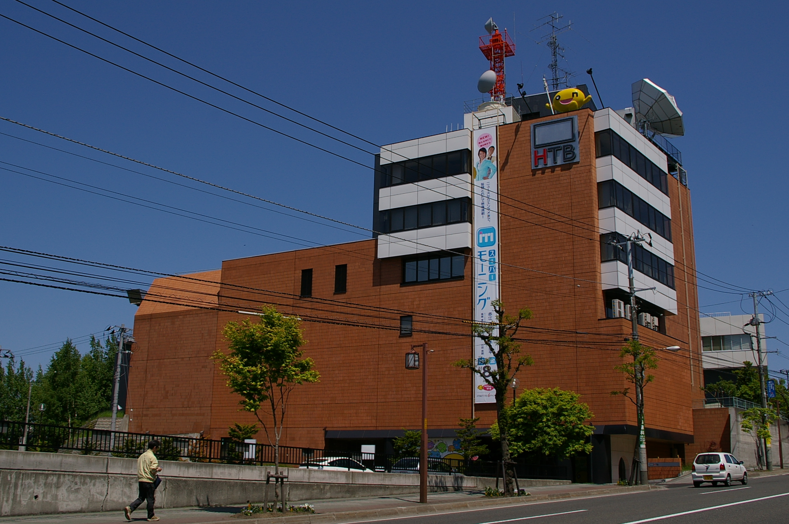 Photograph of the headquarters of Hokkaido Television Broadcasting Company in Toyohira-ku, Sapporo, Hokkaido, Japan.